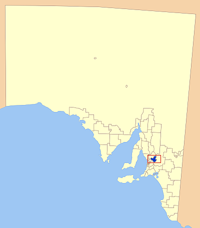 Map of South Australia showling the location of the Barossa Local Government Area. A modification of GDFL map by Astrokey44; found here: File:SA_LGA_blank.png